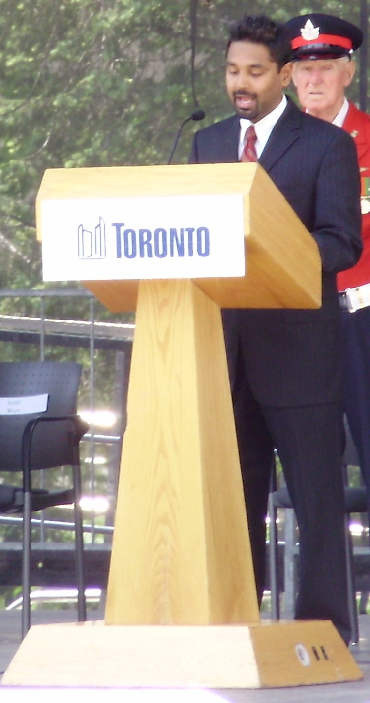 Francis D'Souza of Citytv speaking in his capacity as Master of Ceremonies at the ceremony in honor of the 65th anniversary of D-Day, held in Nathan Phillips Square in Toronto, Ontario, Canada.